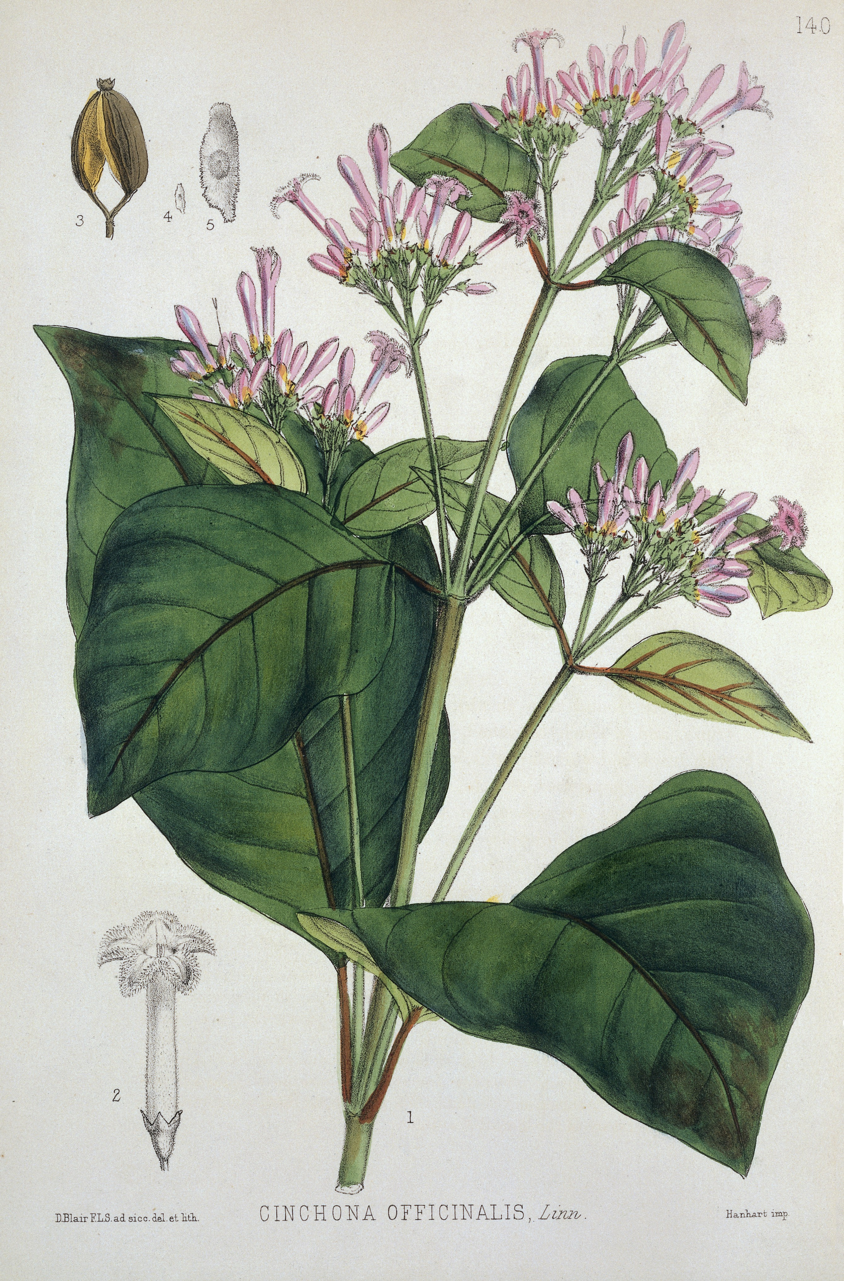 A Quinine plant. Wellcome Images Keywords: Quinine; Malaria; Plants; Robert Bentley